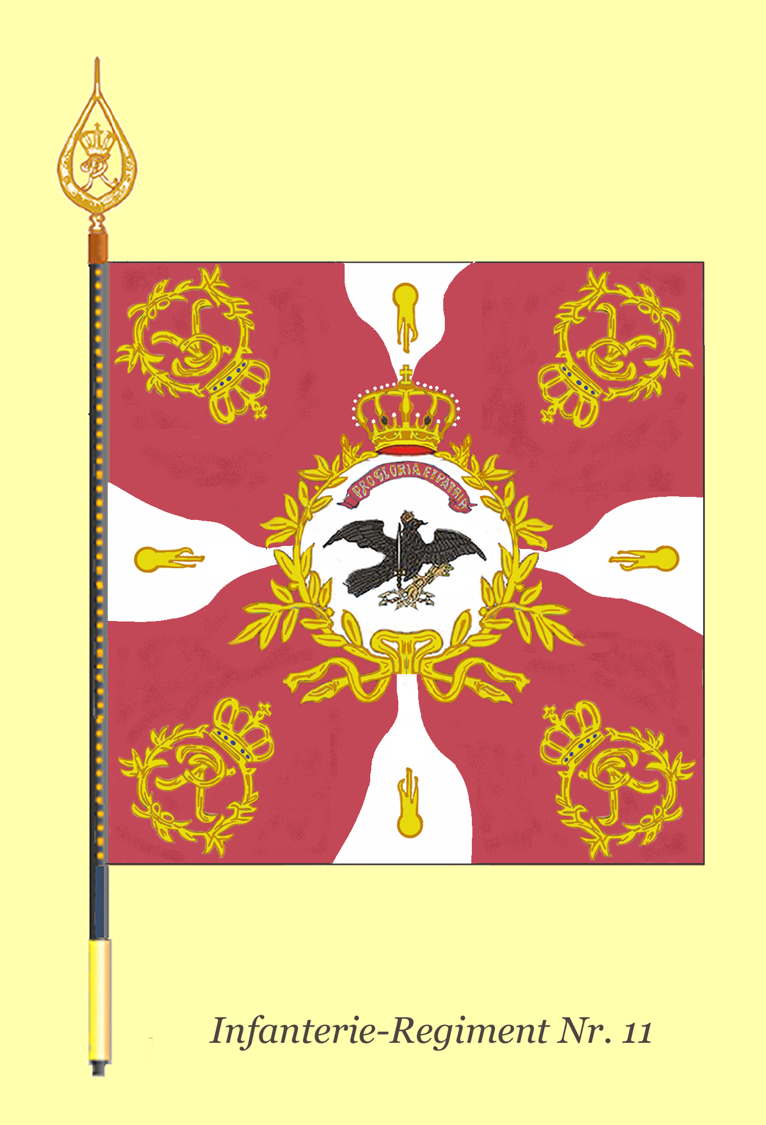 Colors of the royal prussian 11th Regiment of infantry pre 1806